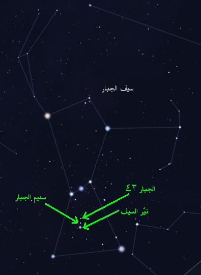 Orion's sword stars.